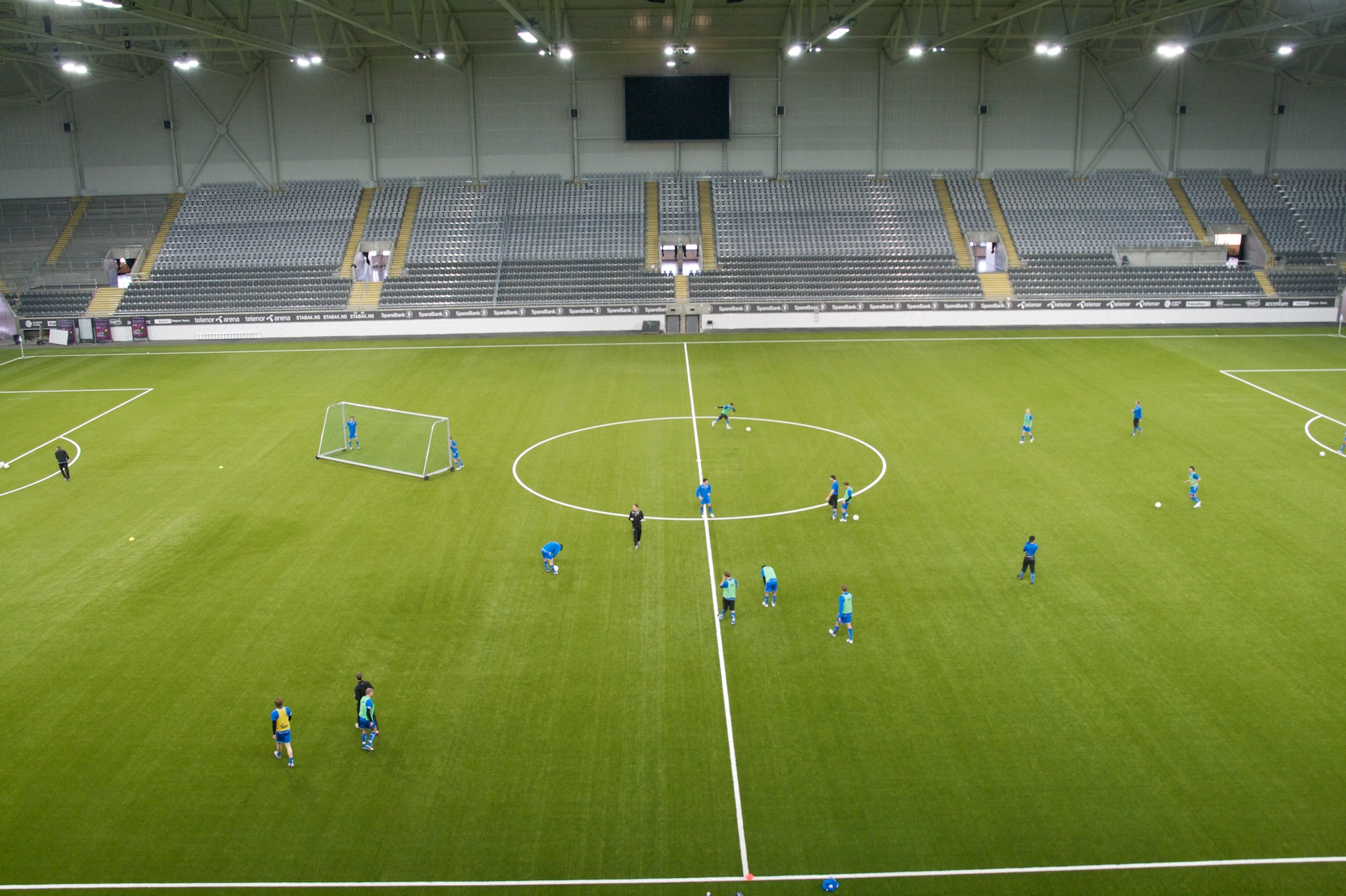 Stabæk training session at Telenor arena, view from the press area